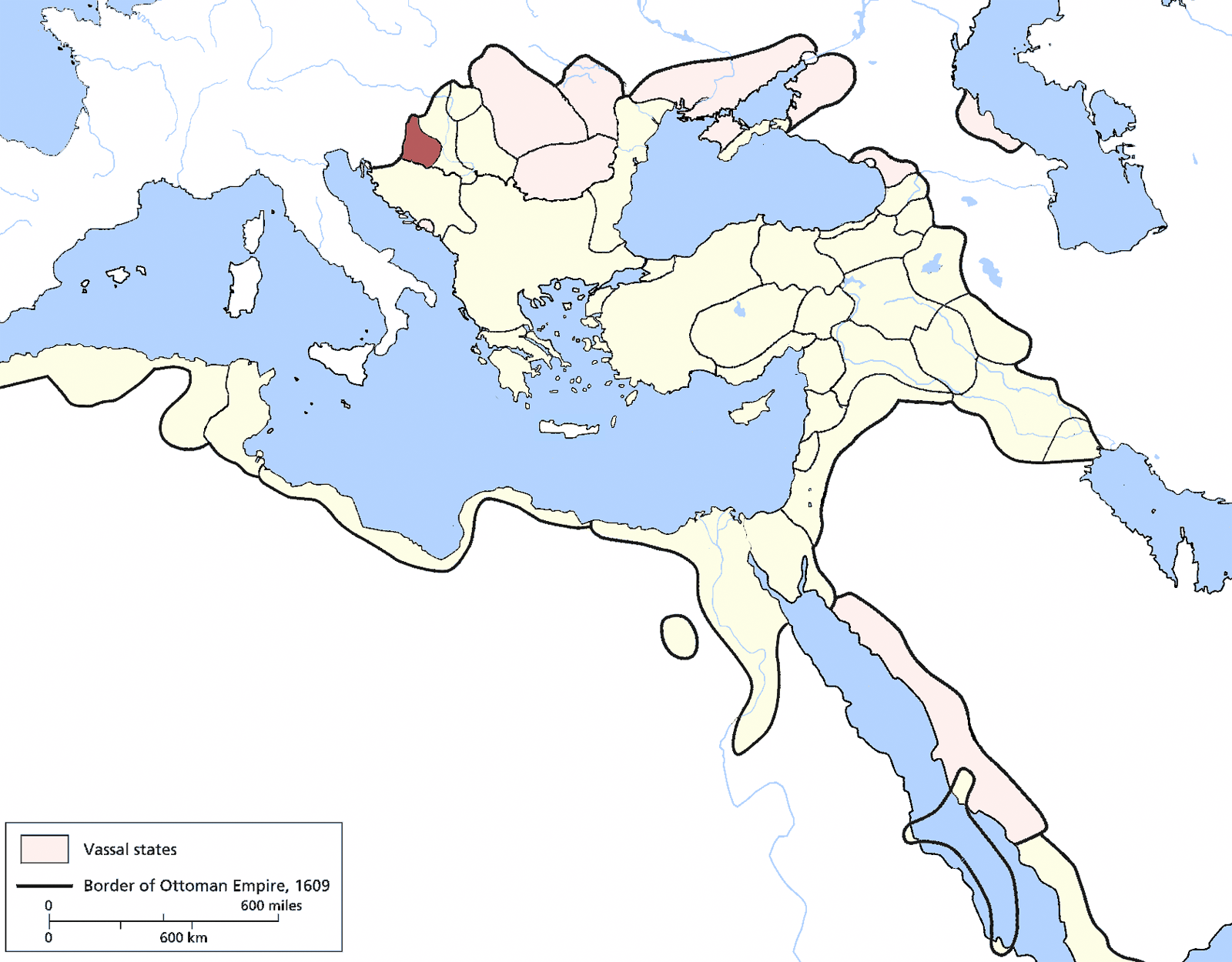 Kanije Eyalet, Ottoman Empire (1609). Source: Encyclopedia of the Ottoman Empire at Google Books By Gábor Ágoston, Bruce Alan Masters